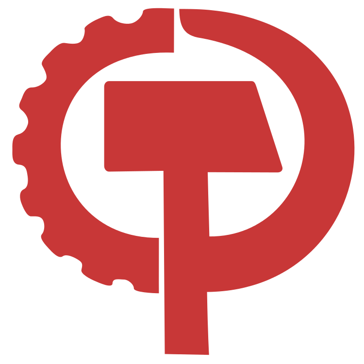 Emblem of the Communist Party of the United States